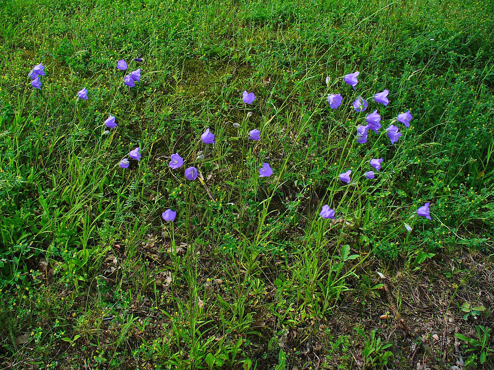 Campanula persicifolia, Peach-leaved Bellflower, habitus; Stutensee, Germany.